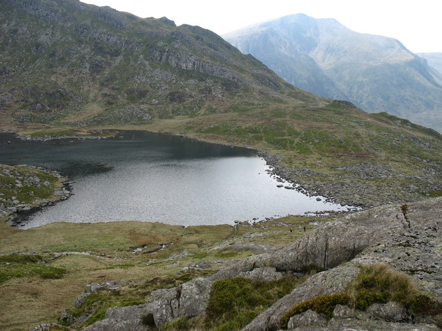 The Outflow of Llyn Bochlwyd. Nant Bochlwyd exits the north-east corner of Llyn Bochlwyd beneath a covering of moranic debris. It later emerges at the point where it plunges 300m down to the Ogwen Valley.